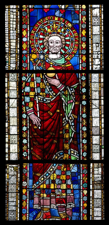 Gothic stained glass depiction of Lothair I, Holy Roman Emperor; Cathedral of Our Lady of Strasbourg, France